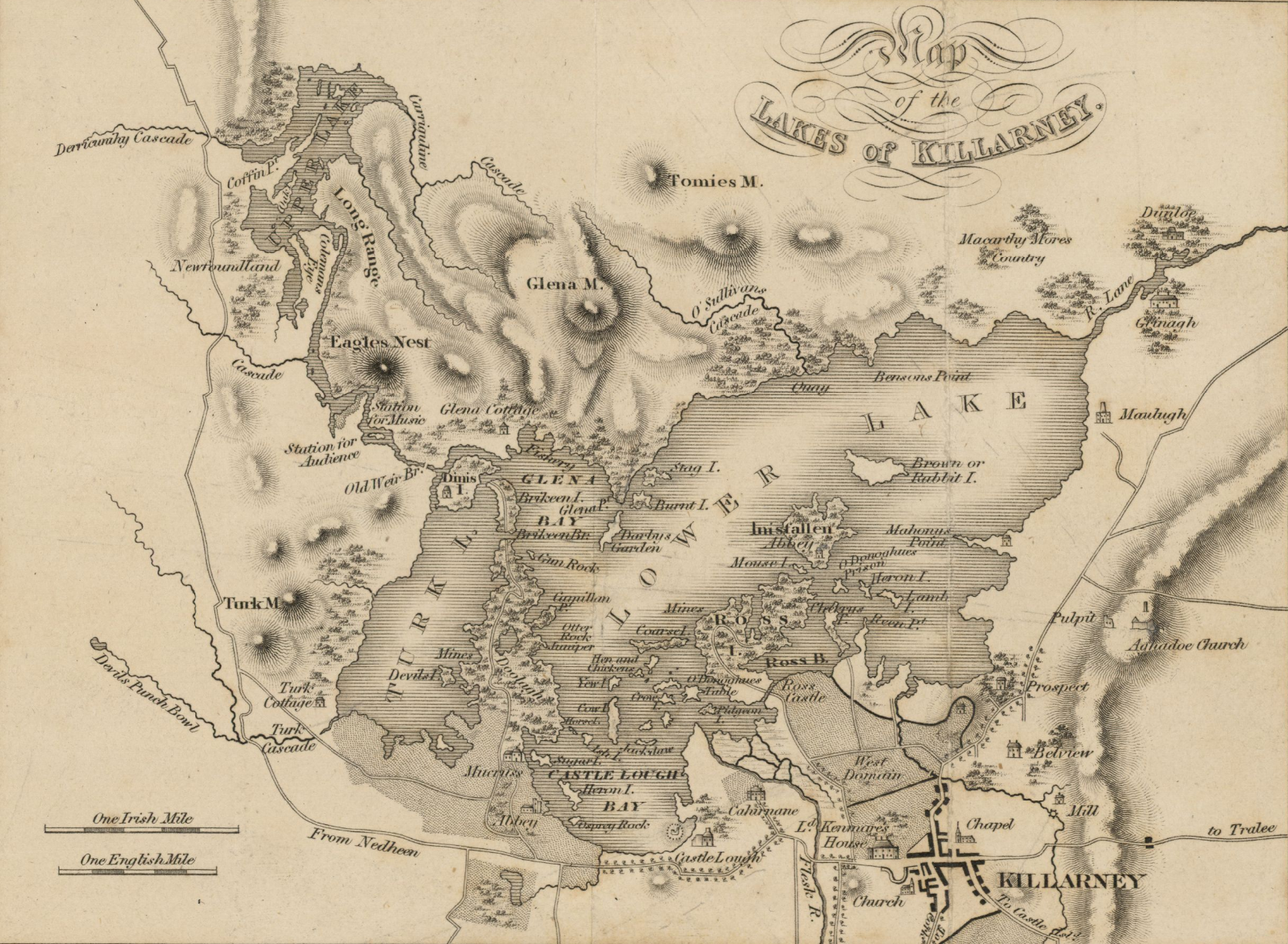 Numerous drawings and landscapes of villages, towns and landmarks in Wales and Ireland. By French artist Alphonse Dousseau.